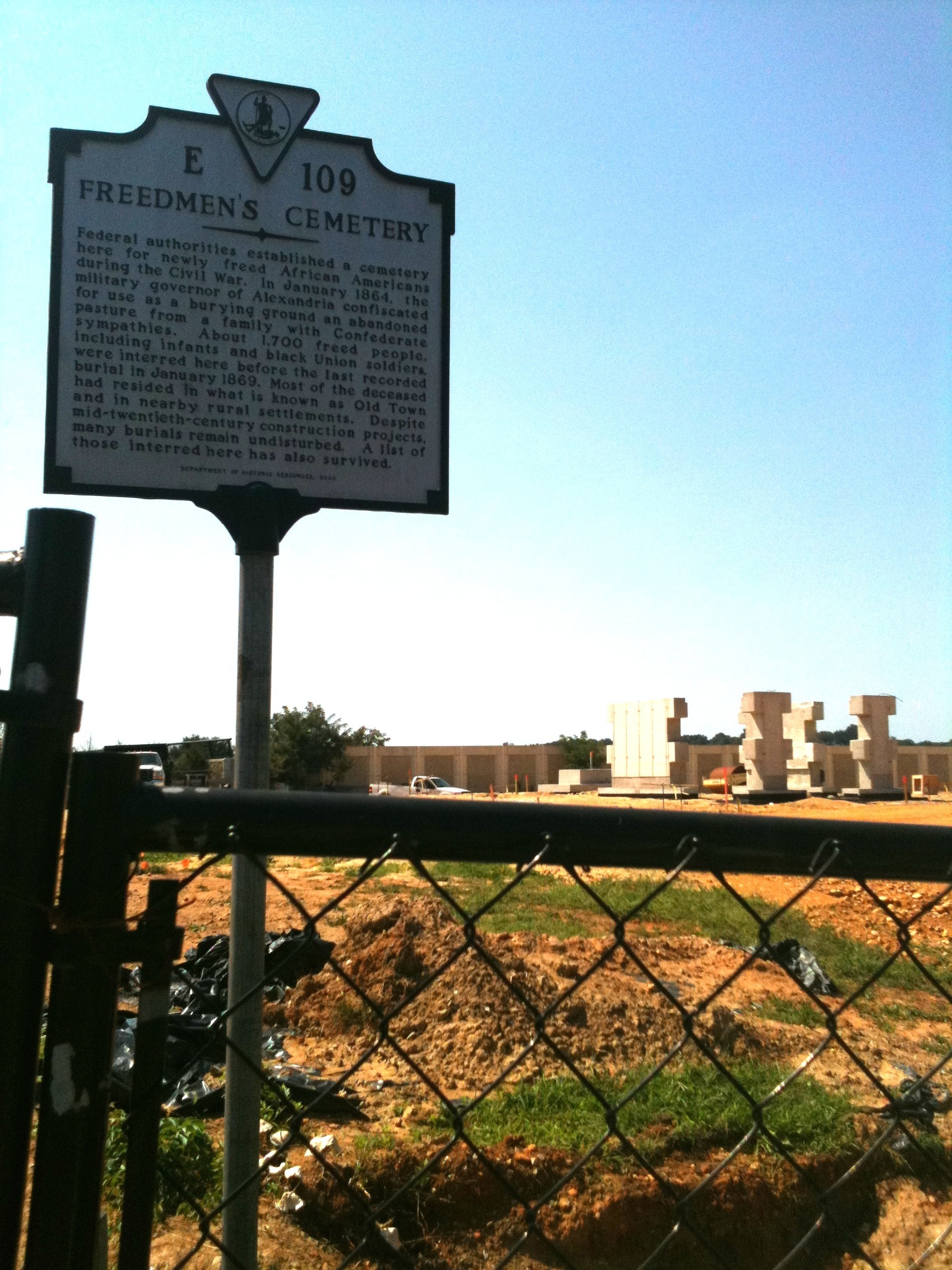 Contrabands and Freedmen Cemetery, Photo of construction of Memorial on site of Freedmens' Cemetery